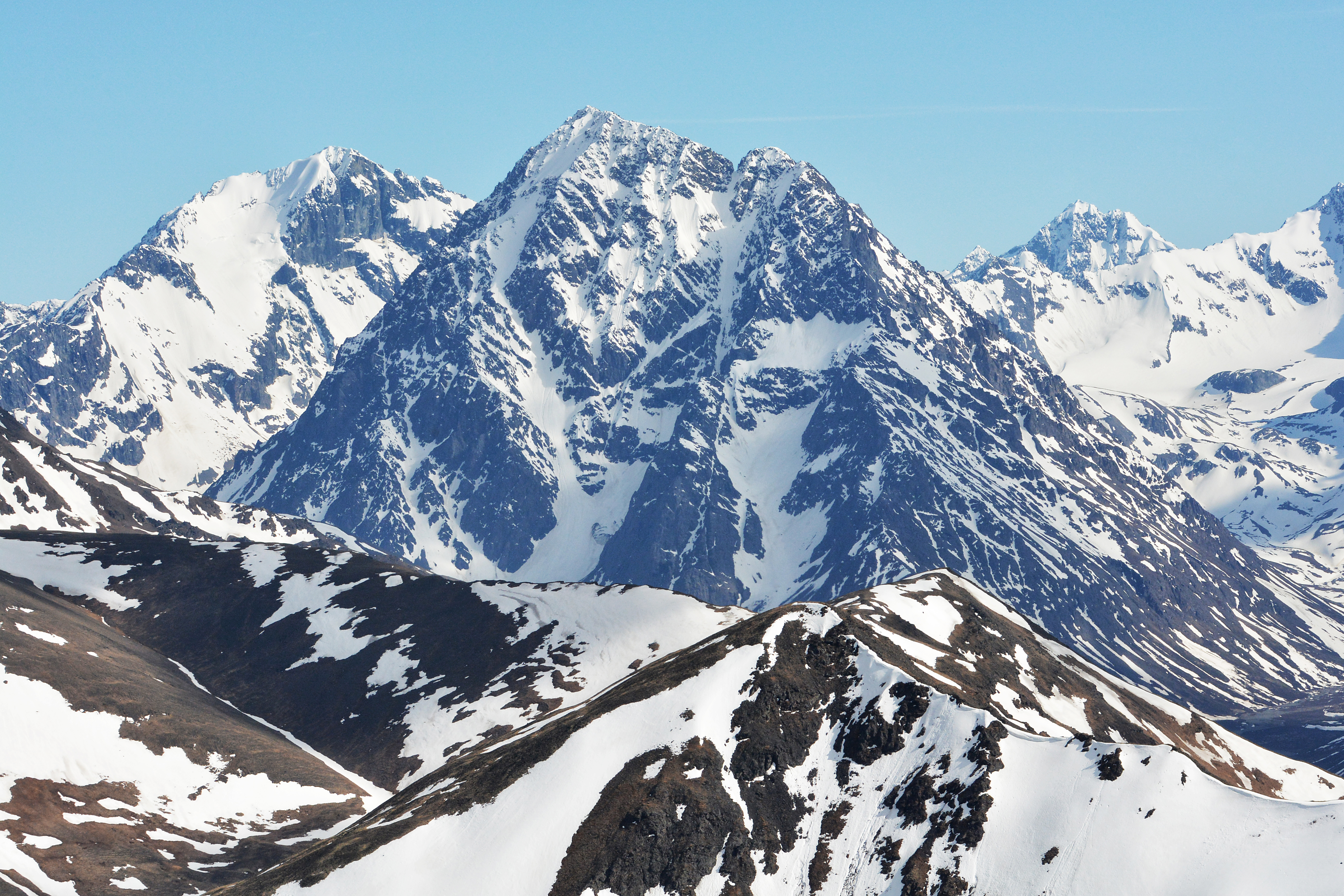 Mt. Rumble from the summit of Peak 5505. Chugach Mountains, Alaska